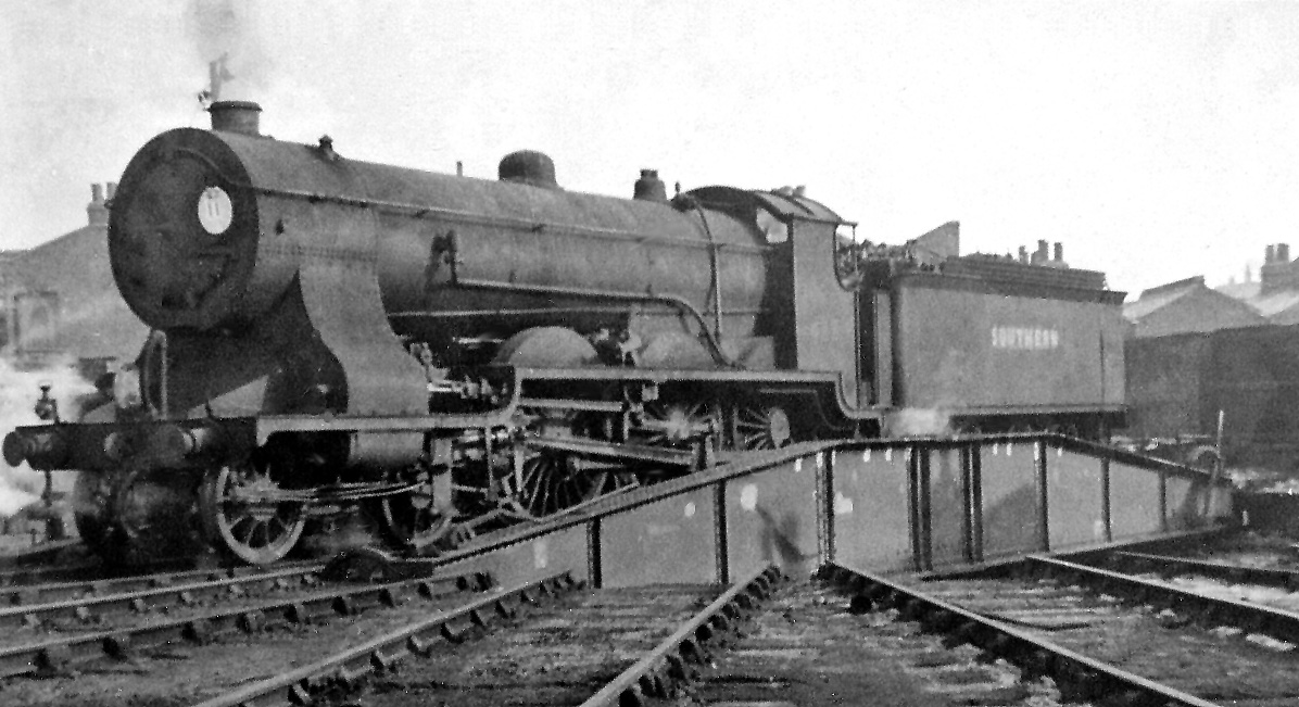 Ex-LSW 4-6-0 on turntable at Nine Elms Locomotive Depot The turntable was at the far end of the Yard, the whole Depot being curiously arranged with 'its back towards' the main line from Waterloo. No. 459 is a Drummond T14 class 'Paddlebox' 4-6-0 (built 6/12, withdrawn 11/48).